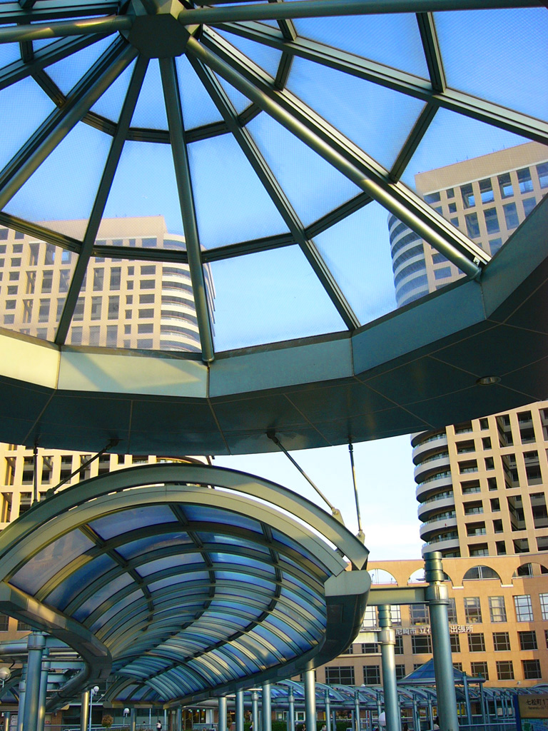 the front of Tachibana Station in Amagasaki, Japan